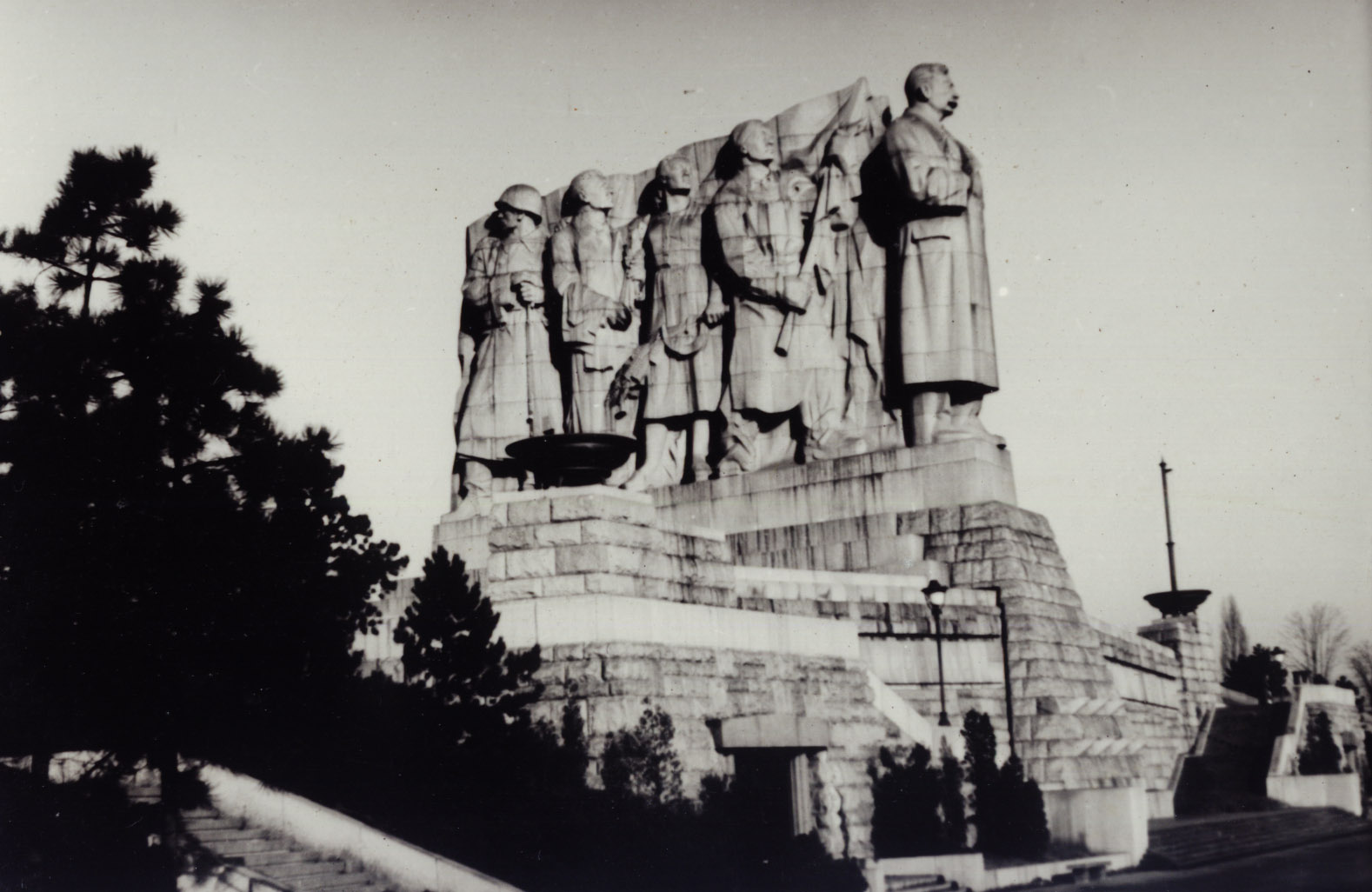 Socialist realism art - Gigantic monument (15 metres high) in honour of Joseph Stalin in Prague-Letná (finished in 1955, two years after his death and destroyed in November 1962)